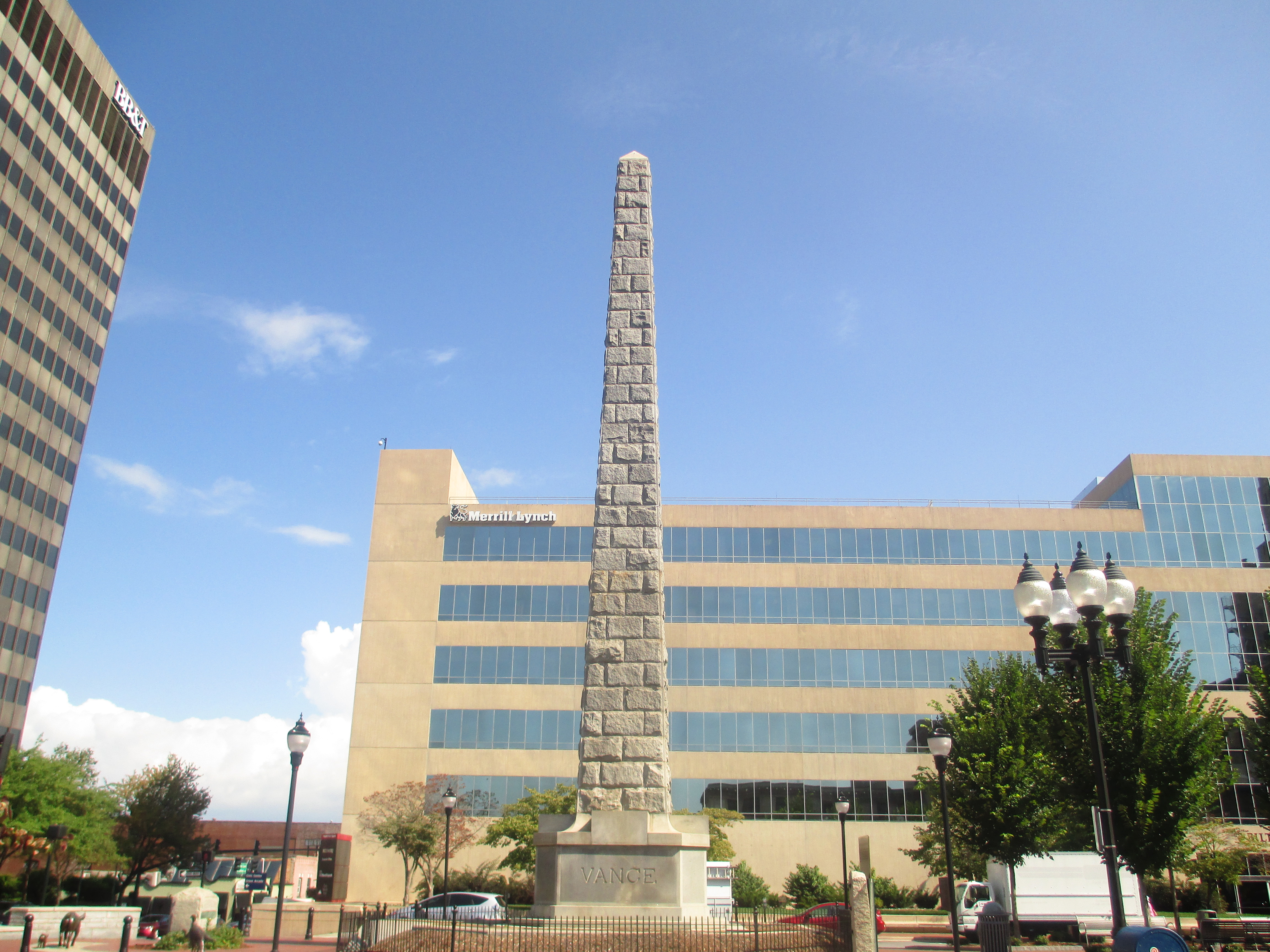 I took photo of Vance obelisk in Asheville, NC, with Canon camera.